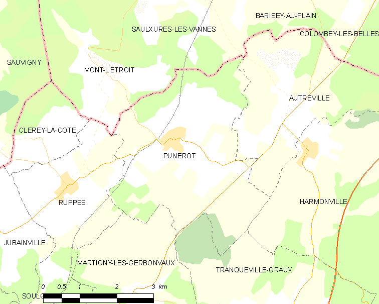 Map of French municipality Punerot